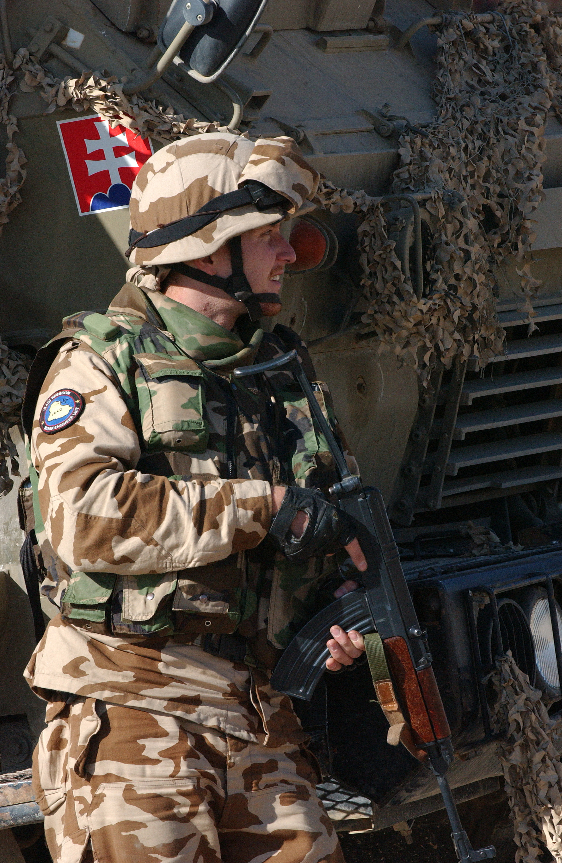 A Slovak army engineer attached to Multi-National Division - Central South provides security for other team members processing the scene of crates of 23mm anti-aircraft ammunition Nov. 25, 2006, for disposal near Diwaniyah, Iraq.